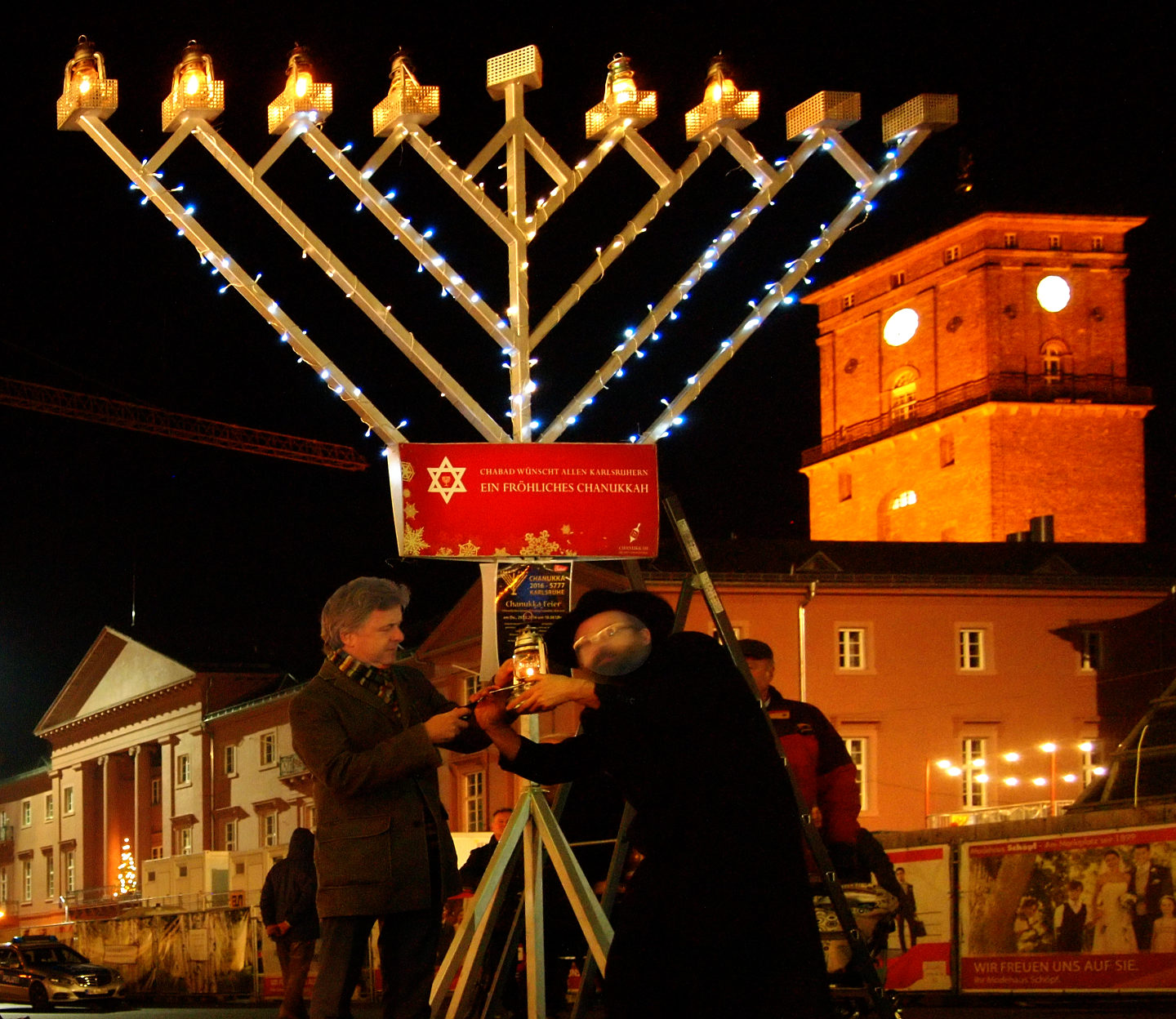 Public menorah in Karlsruhe, Germany, lightened by the Chabad rabbi and the city mayor.